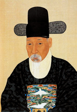 A portrait of Joseon Prime Minister, Chae Jegong (1720~1799)